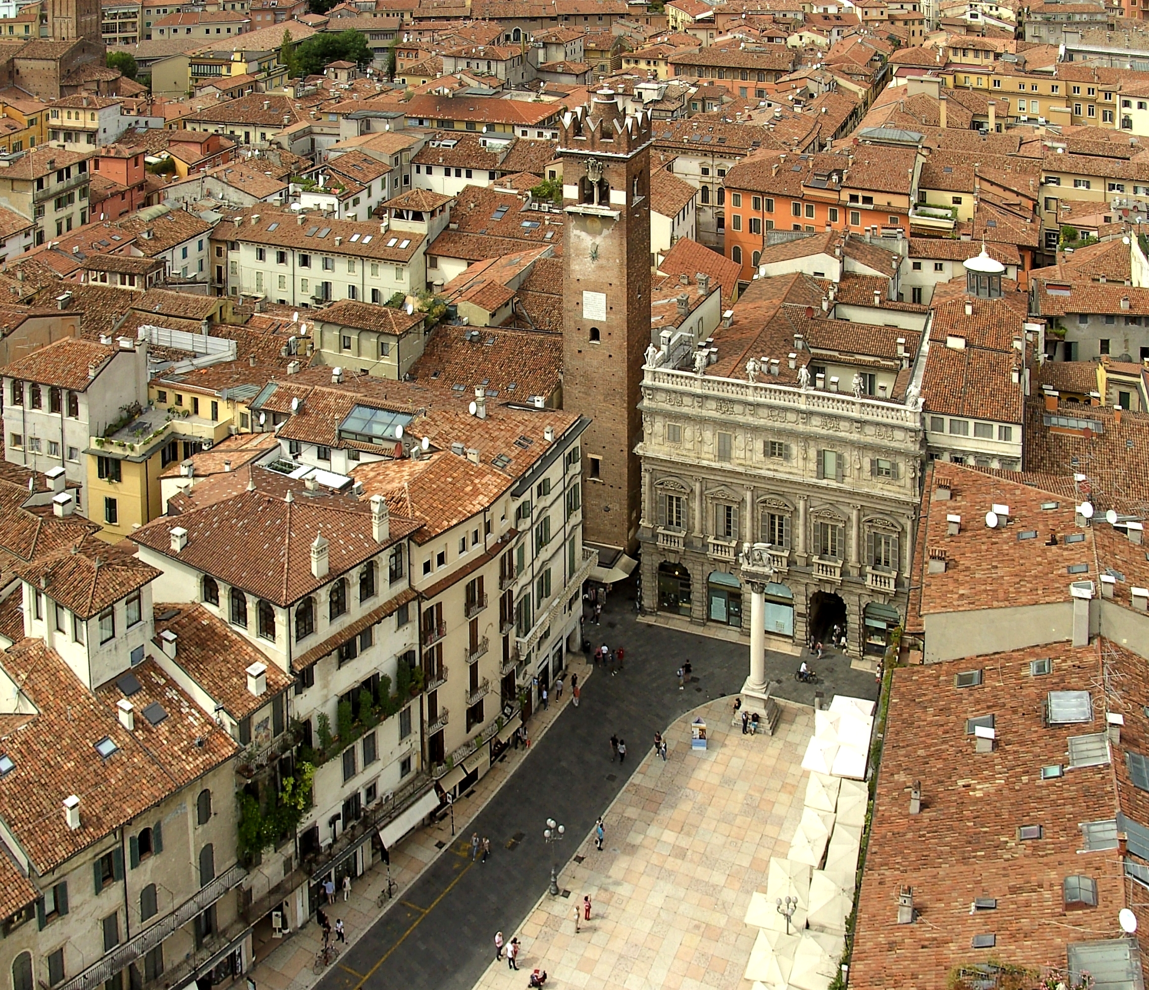 Piazza Erbe as seen from the Lamberti tower.